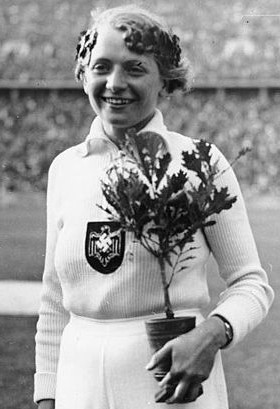 Tilly Fleischer, olympic champion for Germany at the 1936 Summer Olympics